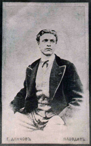 Photograph portrait of Vasil Levski (1837–73)